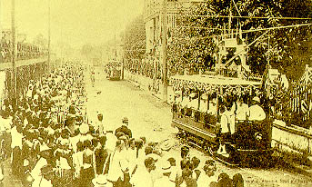 operate of Bangkok Tram by order of King Rama V